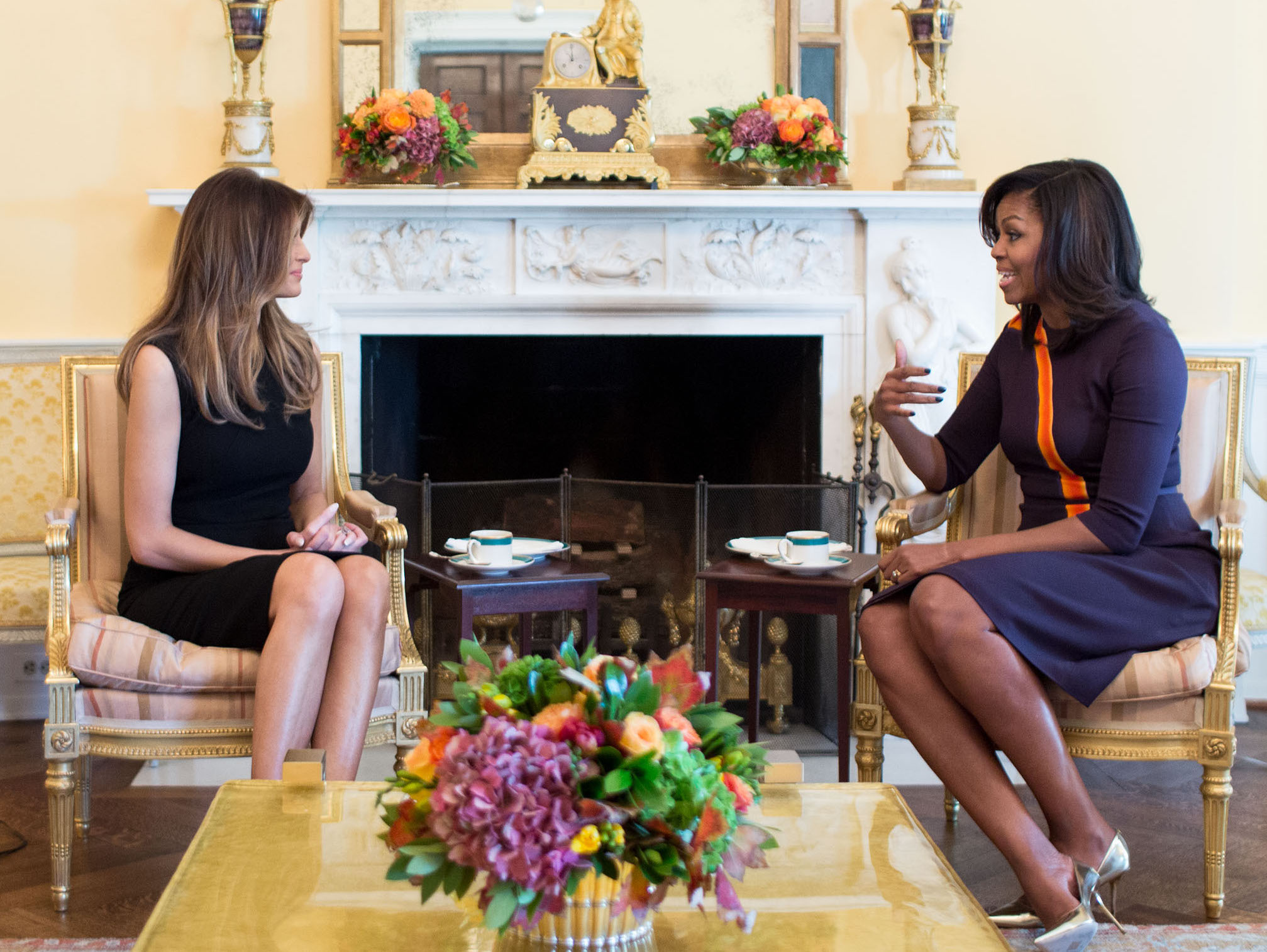 First Lady Michelle Obama meets with Melania Trump for tea in the Yellow Oval Room of the White House, Nov. 10, 2016. (Official White House Photo by Chuck Kennedy). Michelle Obama in a Narciso Rodriguez dress. This official White House photograph is being made available only for publication by news organizations and/or for personal use printing by the subject(s) of the photograph. The photograph may not be manipulated in any way and may not be used in commercial or political materials, advertisements, emails, products, promotions that in any way suggests approval or endorsement of the President, the First Family, or the White House.